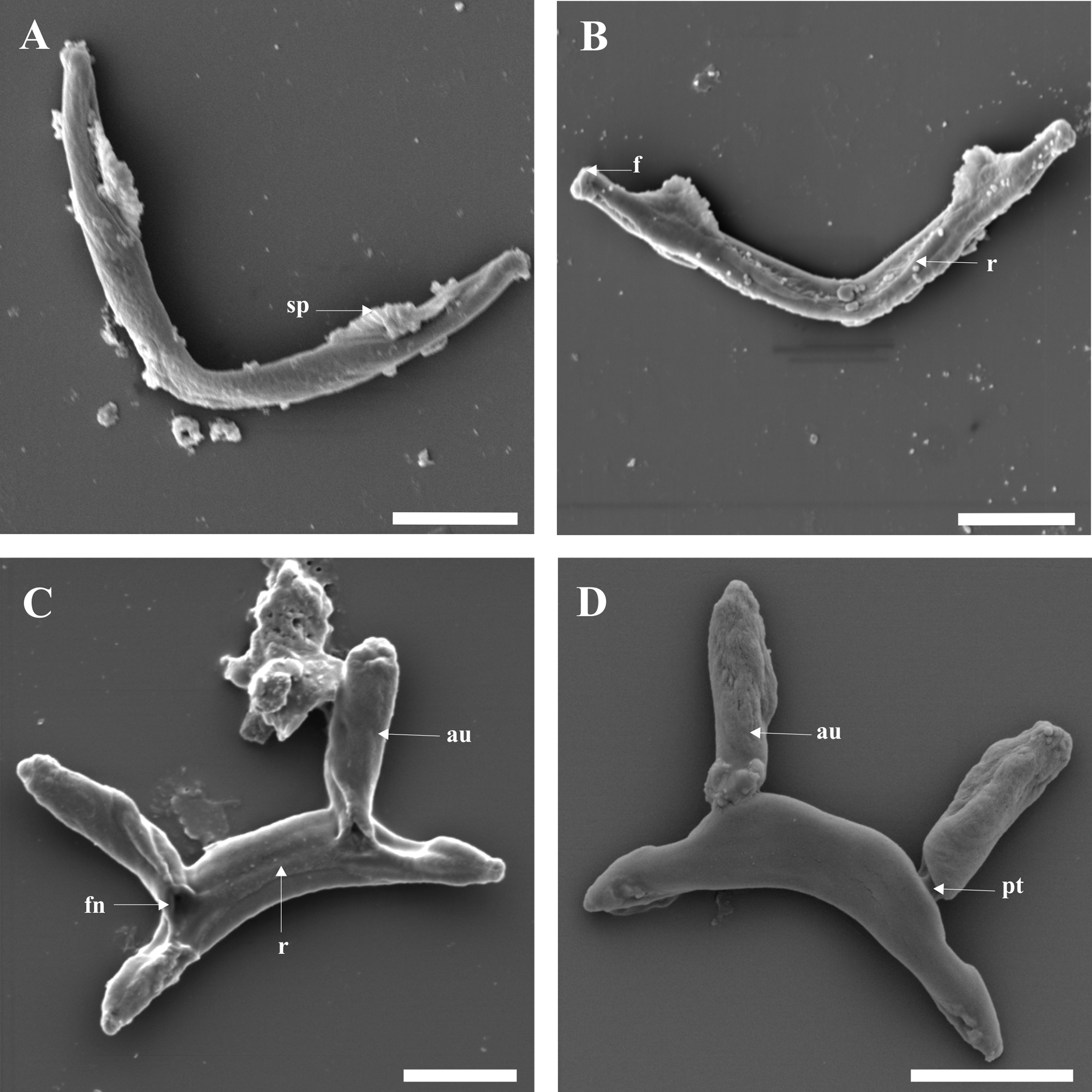 Figure 4 of paper SEM micrographs of Cichlidogyrus philander (Monogenea, Ancyrocephalidae), ventral and dorsal bars: A convex surface of ventral bar; B concave surface of ventral bar; C concave surface of dorsal bar; D convex surface of dorsal bar. Abbreviations: au auricle; f fold on extremities; fn fenestration; pt point of attachment of auricle; r rib; sp serrated plate. Scale-bars: 10 μm.